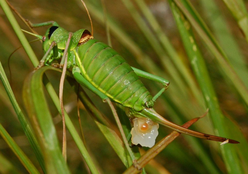 Ephippiger perforatus - female with spermastophore